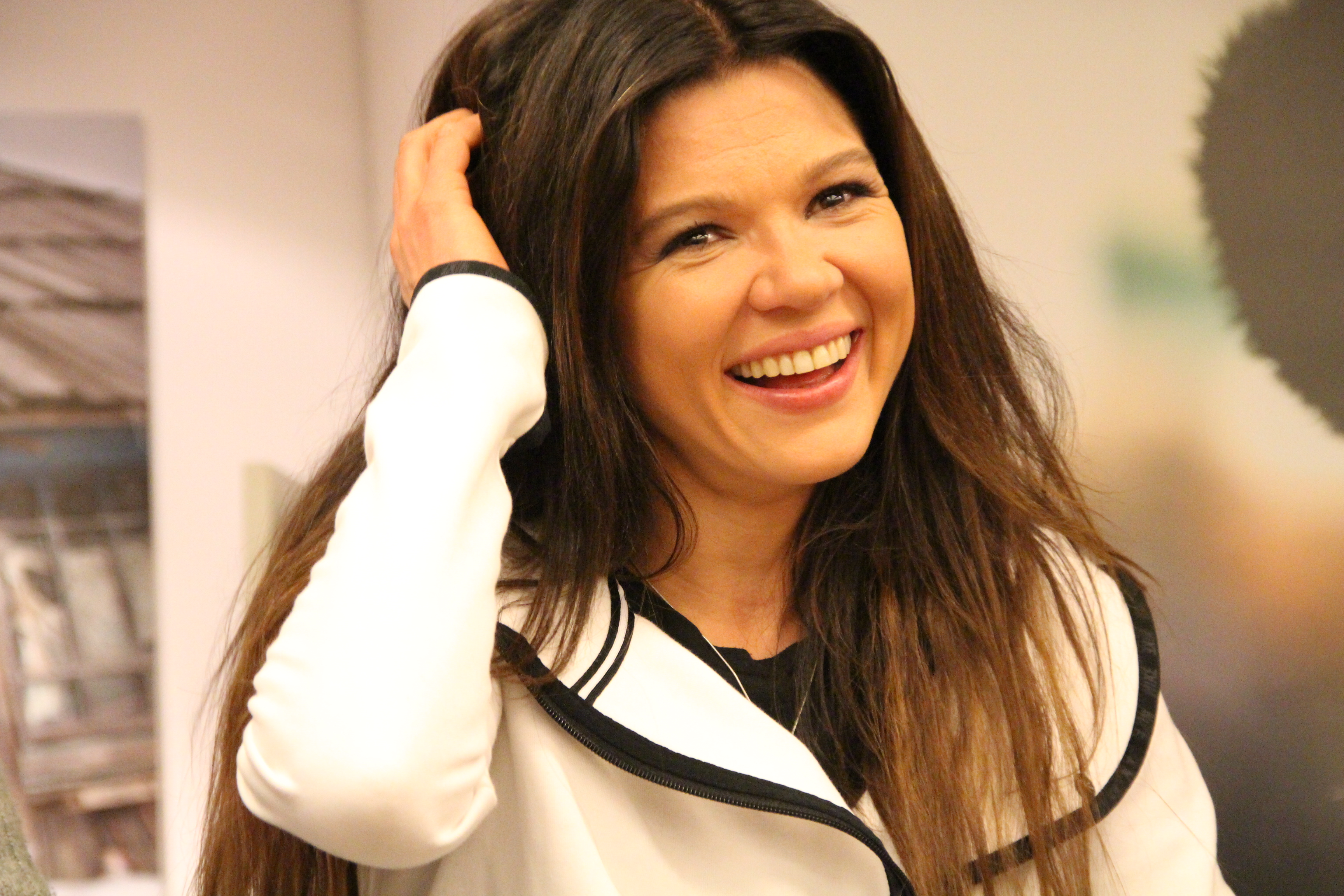 Ruslana at the panel discussion of the Lew Kopelew Forum, Cologne, Germany, 18th April 2015